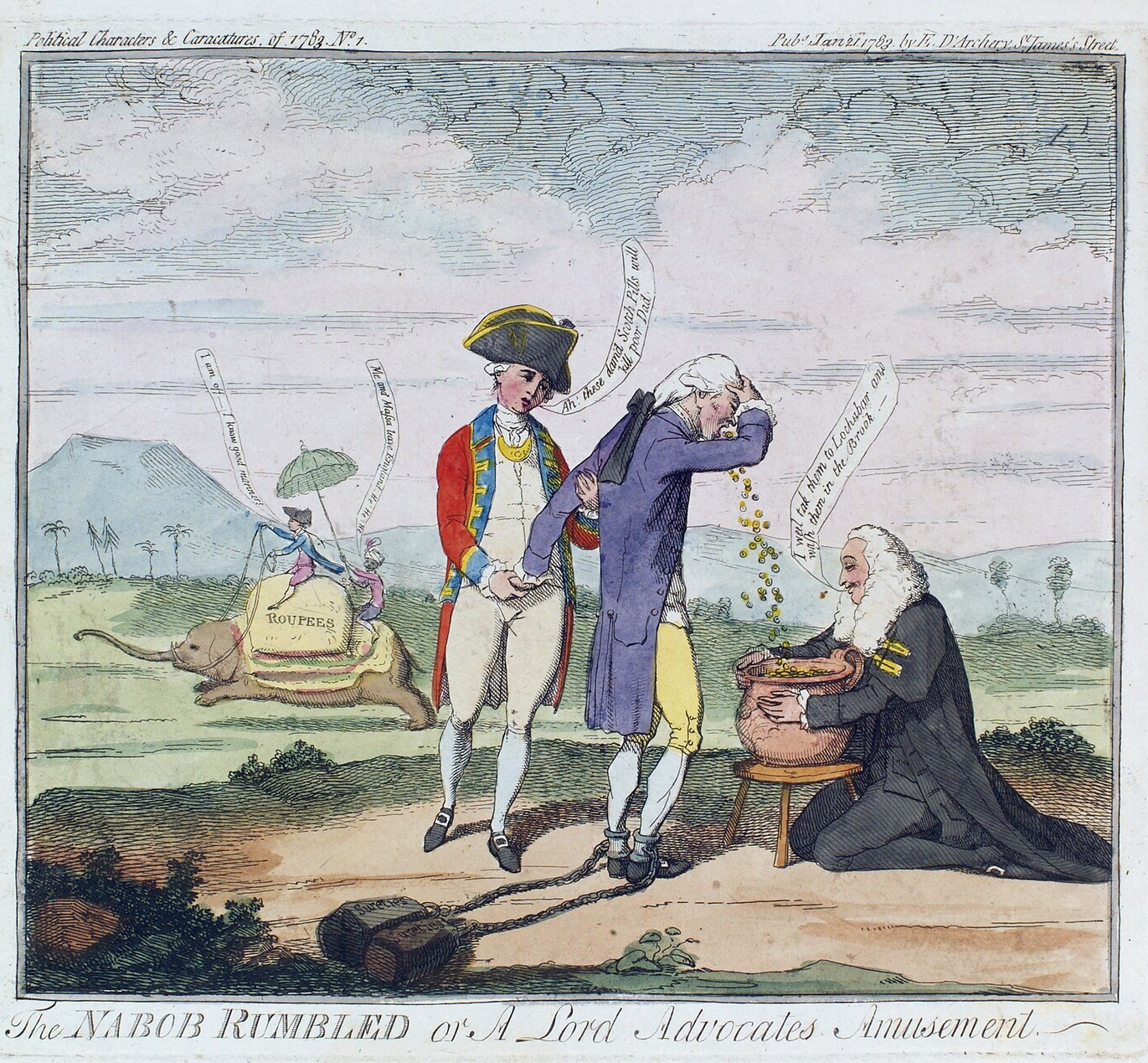 A cartoon depicting Thomas Rumbold and corruption in the East India Company - with the punning title - "The Nabob Rumbled or a Lord Advocates Amusement". It shows Sir Thomas Rumbold coughing coins to Henry Dundas. His legs are shackled to weights marked as "sureties". His son hold him and says "Ah these dam'd Scotch Pills will kill poor Dad". Dundas says "I weel tak them to Lochabar and wash them in the Brook -"